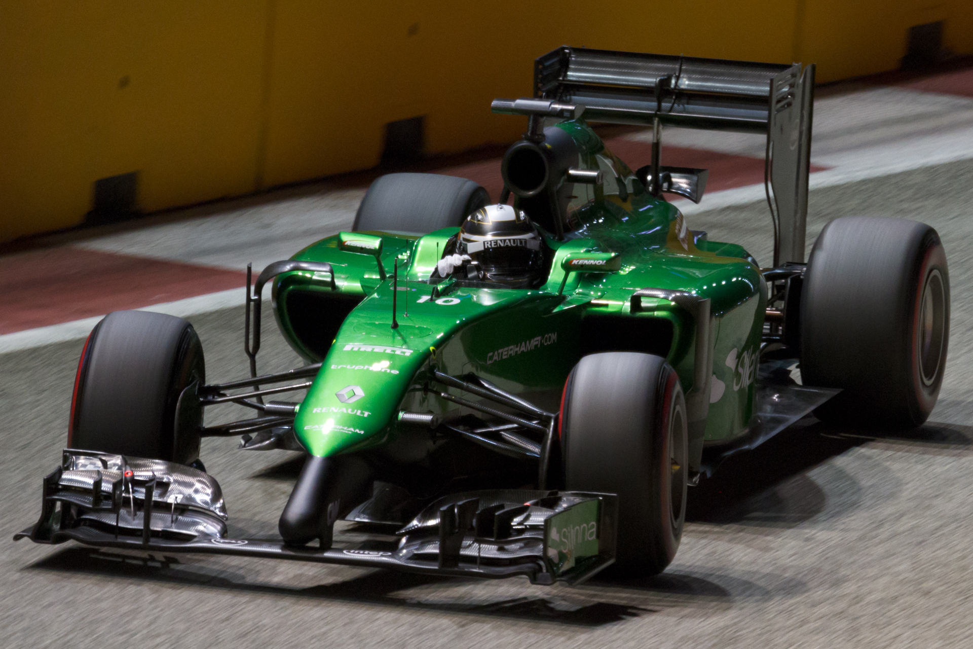 Formula One 2014 Rd.14 Singapore GP: Kamui Kobayashi (Caterham)